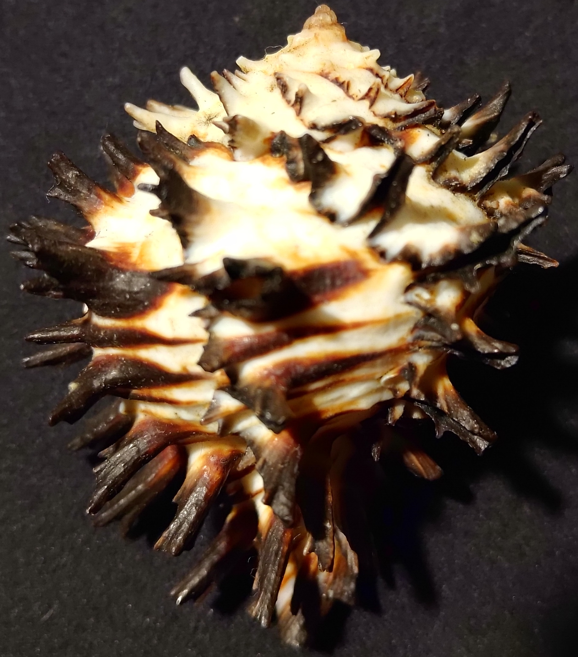 Hexaplex ambiguus, Back